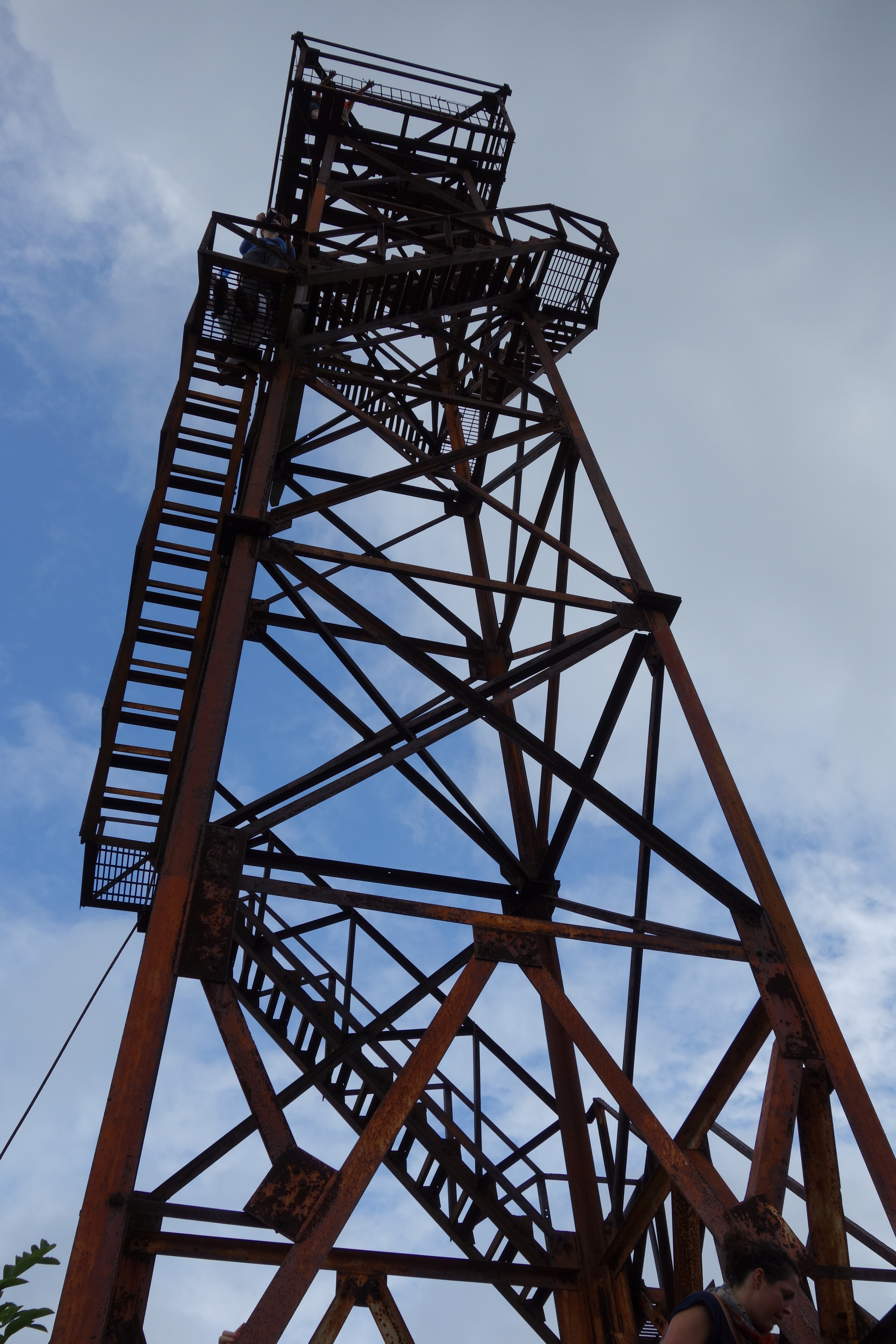 Steel tower in Cat Ba National Park.